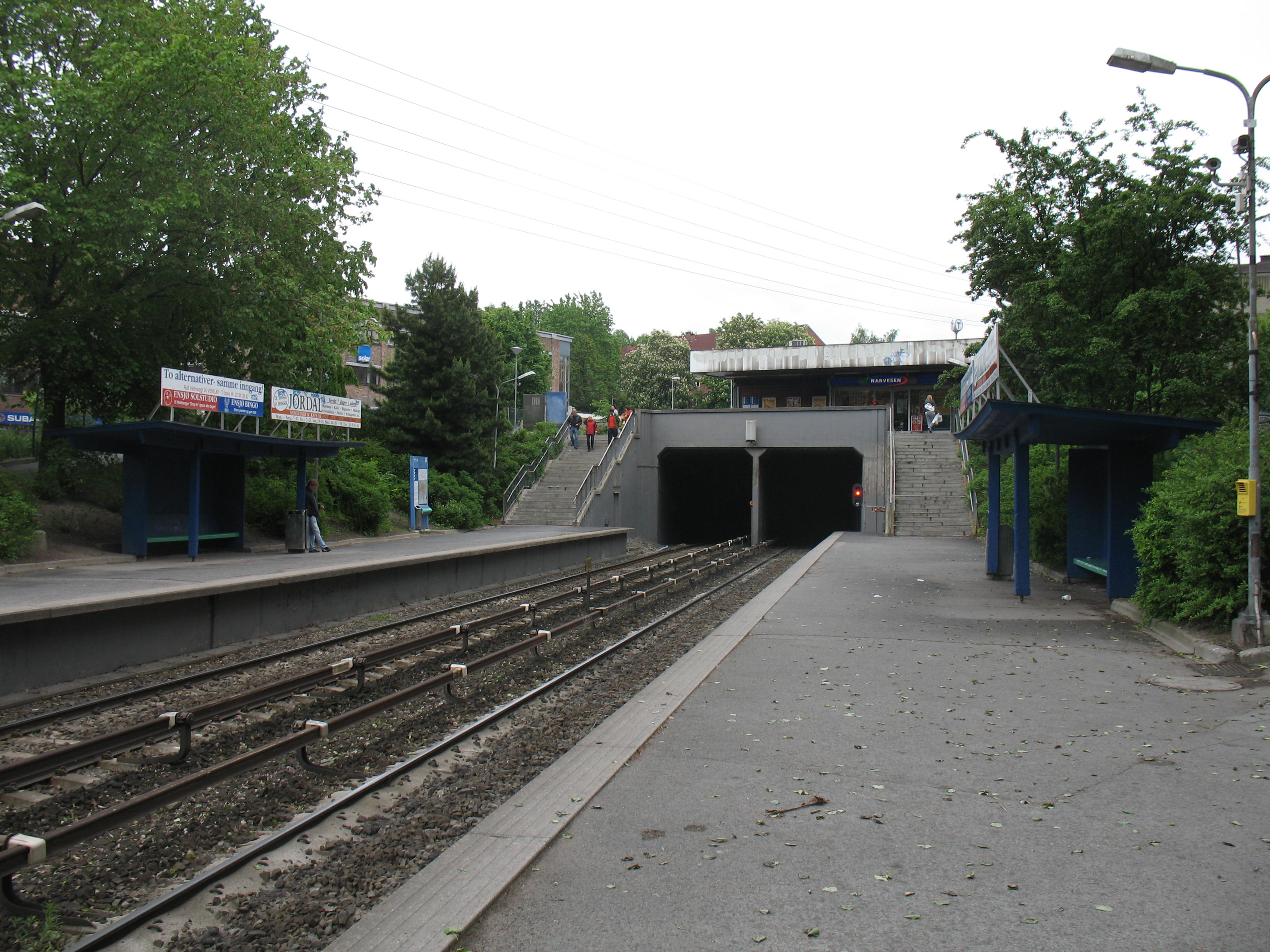 Ensjø is a station on the Oslo T-bane